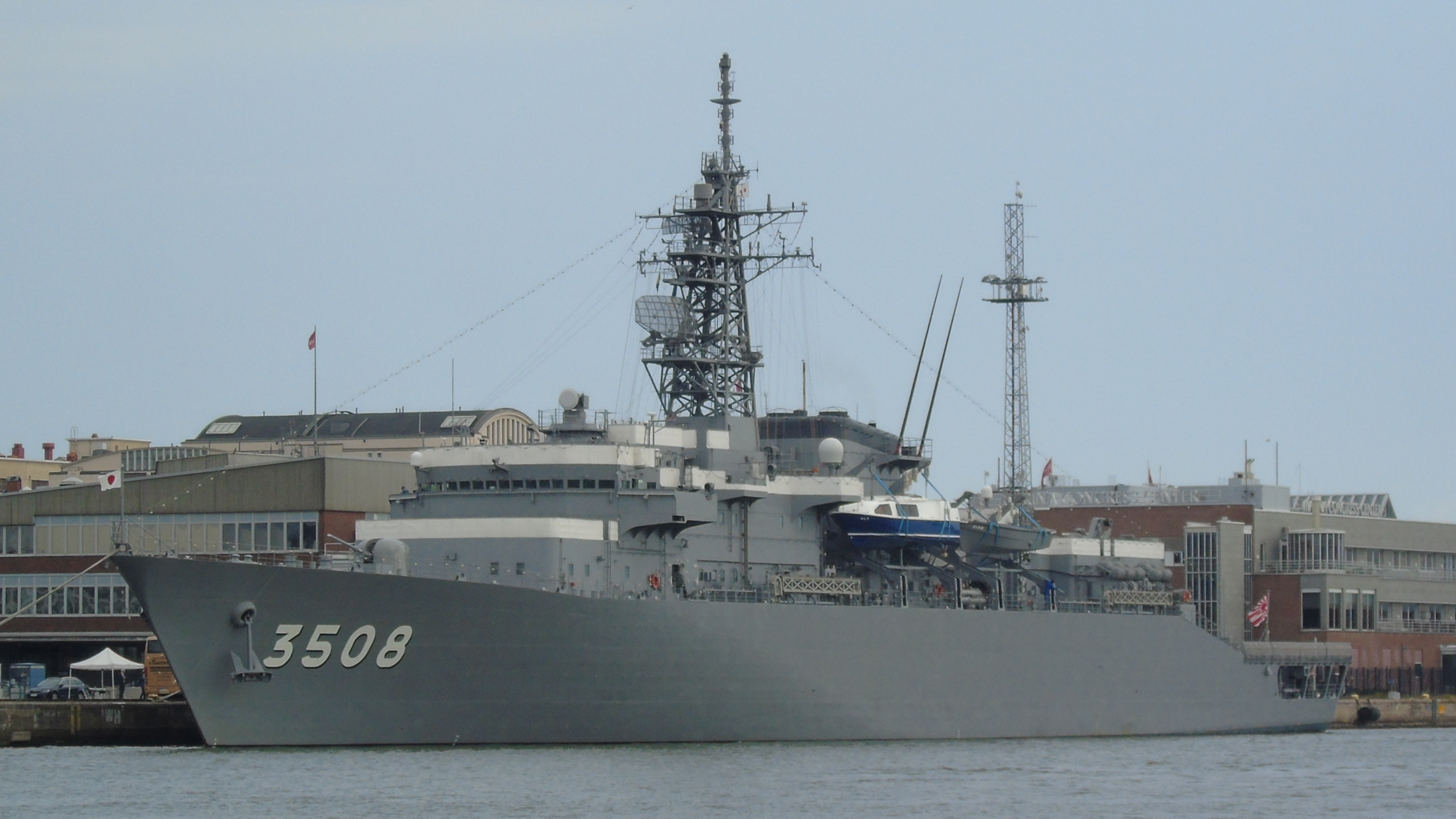 JS Kashima (TV-3508) training vessel, Japan Maritime Self-Defense Force (JMSDF). Helsinki, Katajanokka Quay 18.8.2018.